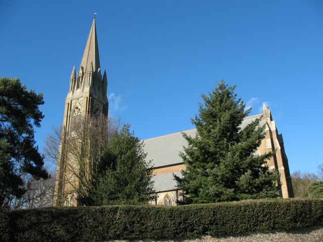 St John the Evangelist parish church, Redhill, Surrey, England, seen from the south